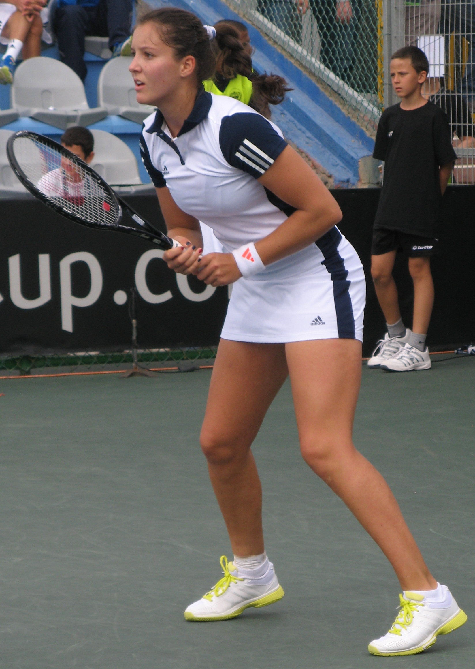 The tennis player Laura Robson of Great Britain during her match against Margarida Moura of Portugal in the 3rd day of Fed Cup Group I 2013 Europe/ Africa in Eilat, Israel.